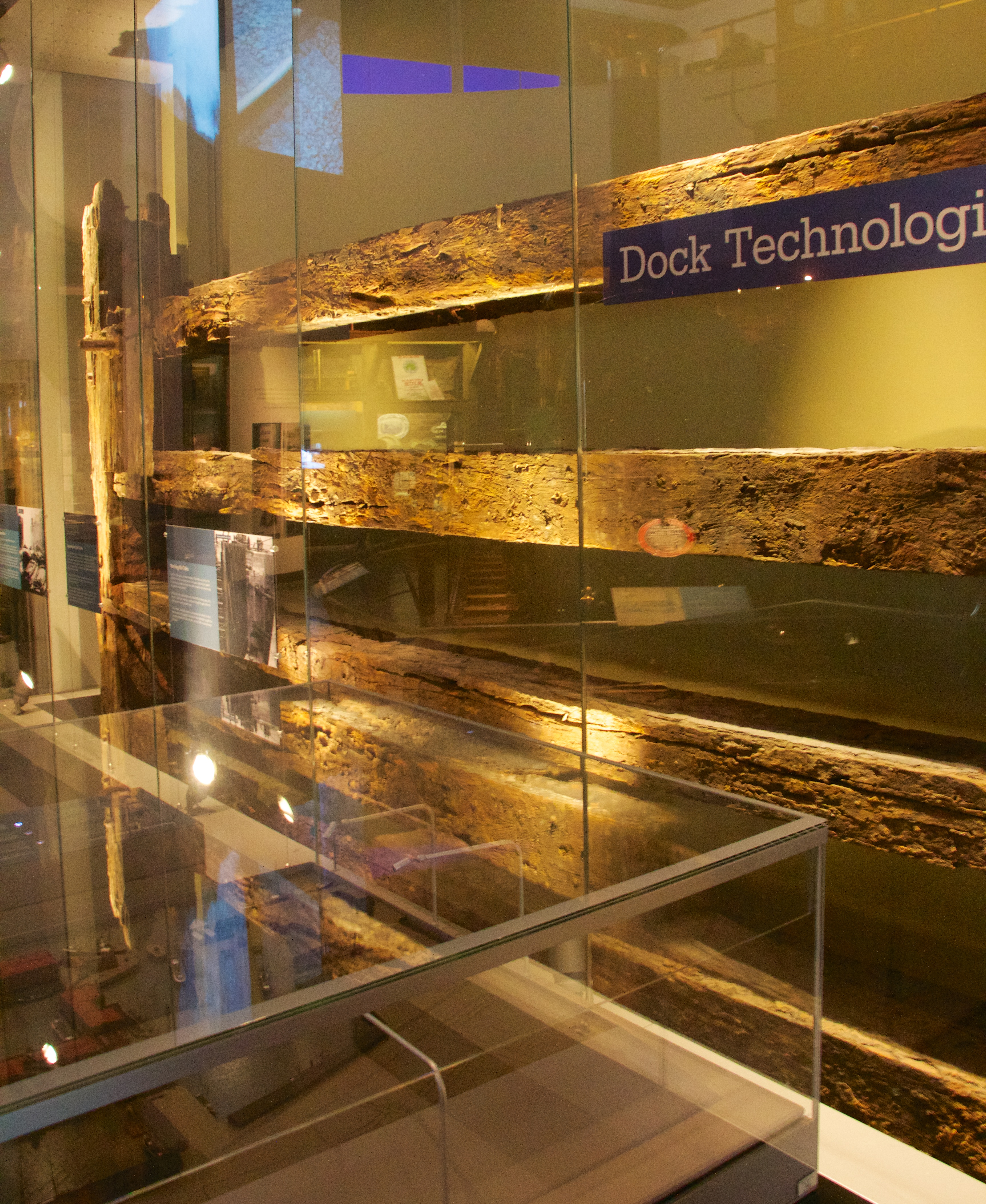 Manchester Dock Gate. Made from greenheart timber. On display in the Museum of Liverpool.